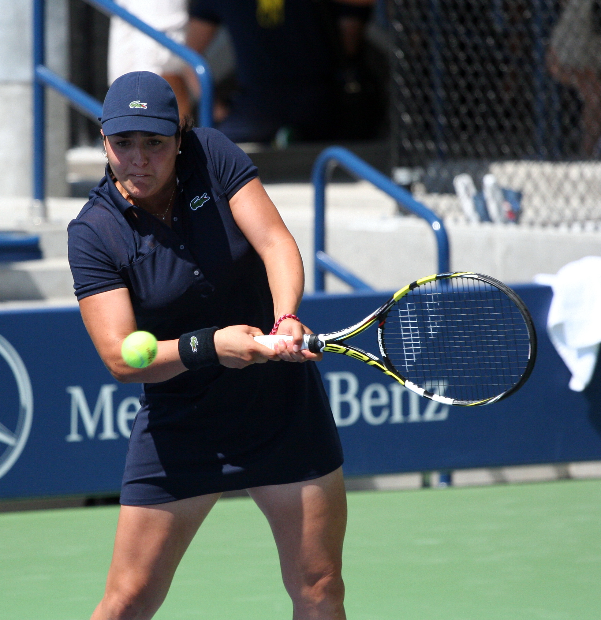 U.S. Open Monday, Aug. 25, 2014